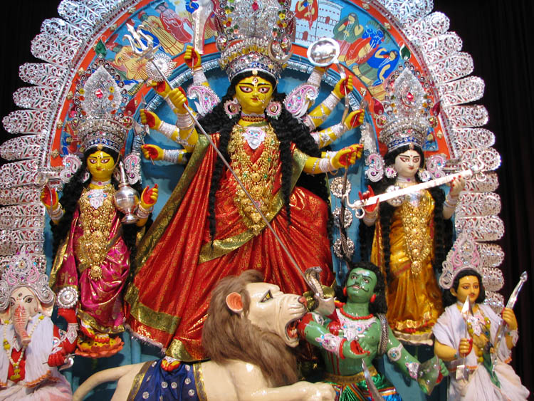 durga puja at belur